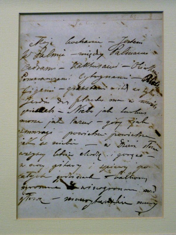 Frédéric Chopin's manuscript - letter from Mallorca in collection museum in Valldemossa.